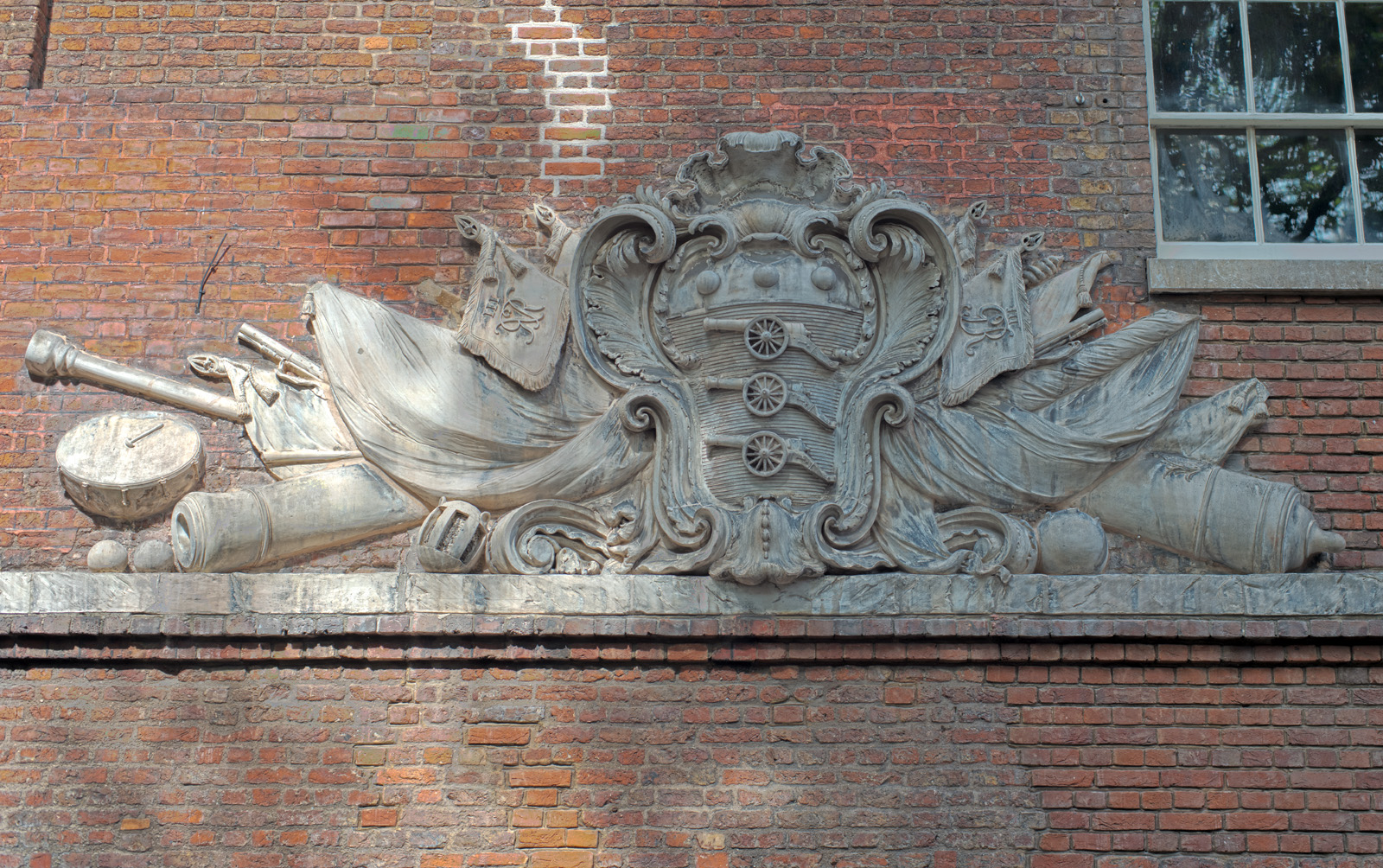 Trying to even out the part in the sun and the part in the shade